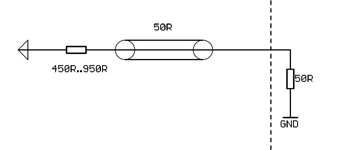 Schematic of a Transmission-Line-Probe